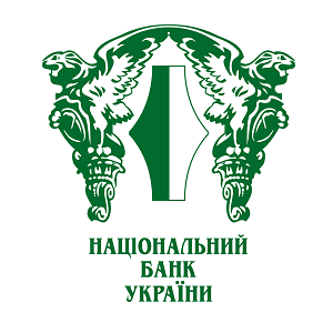 National Bank of Ukraine